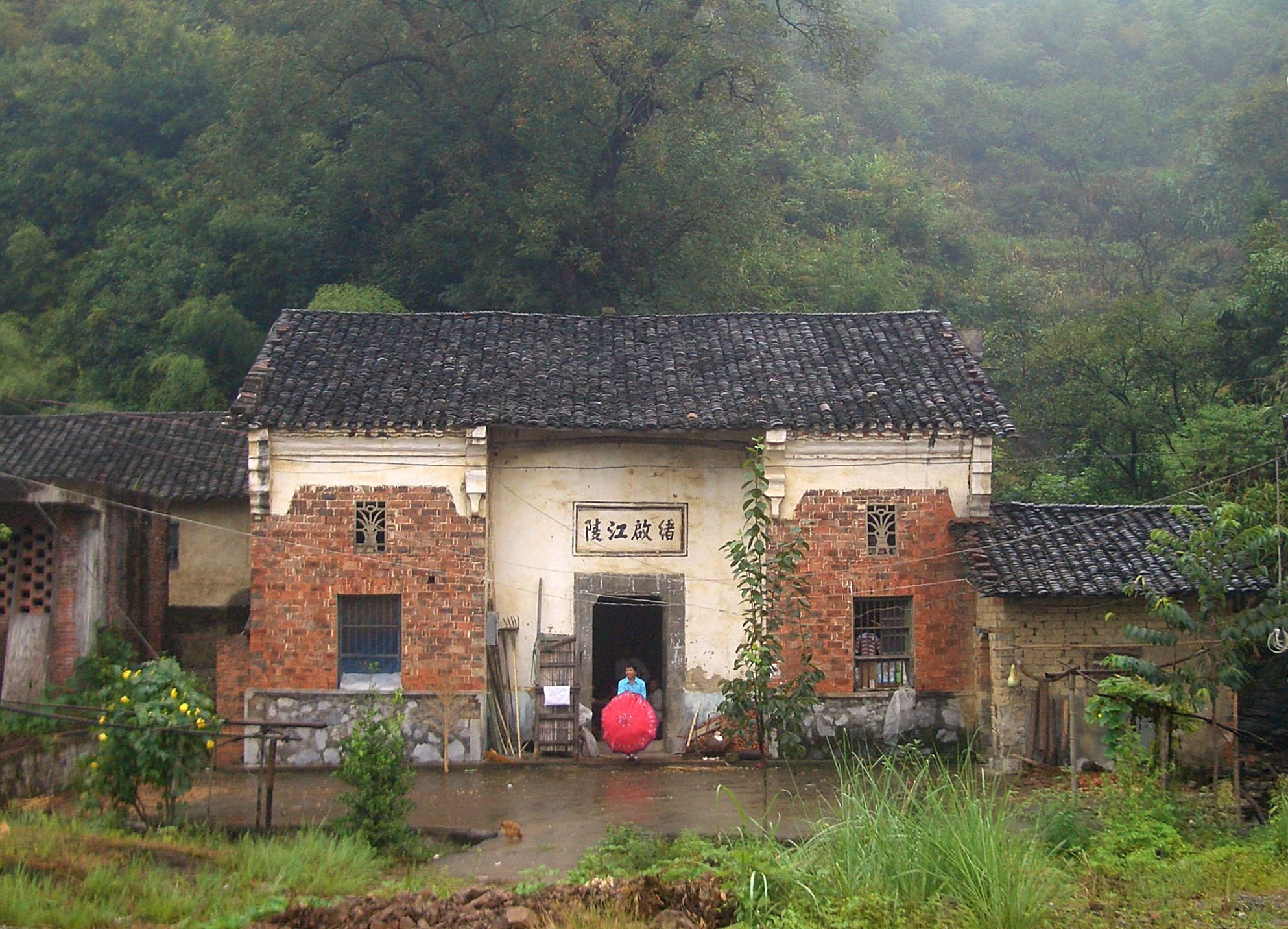 A typical traditional village home in Tongshan County, Hubei. Picture taken from G106 east of Tongshan.